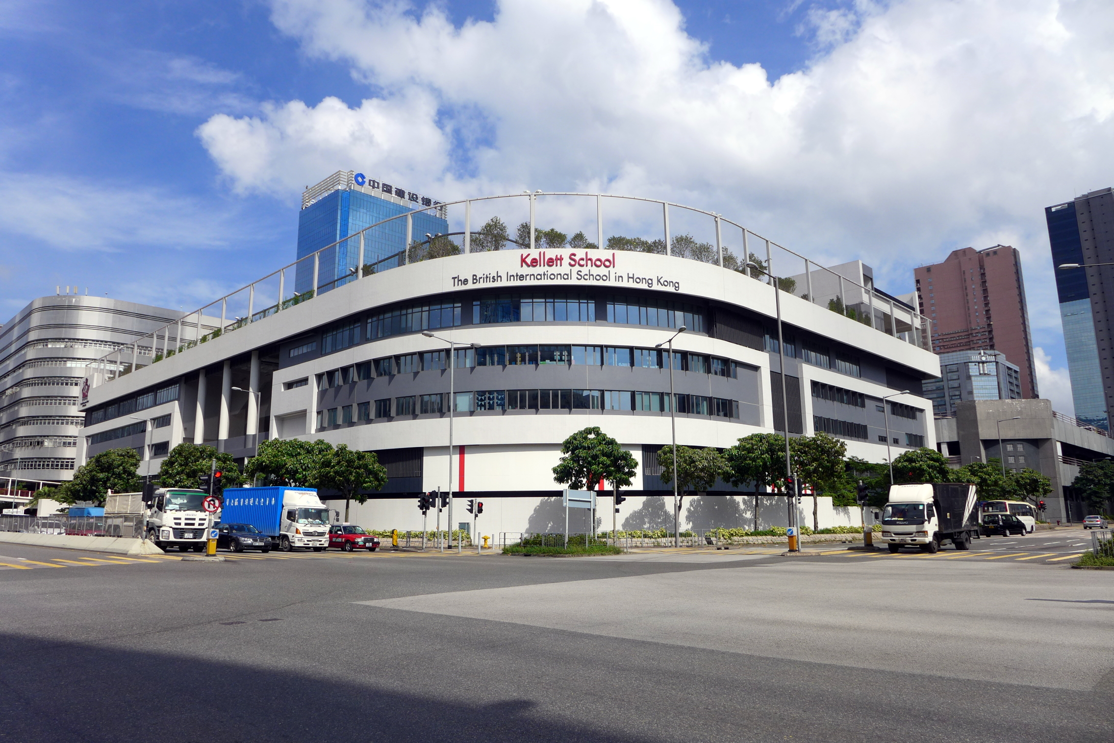 Kellett School 啟歷學校